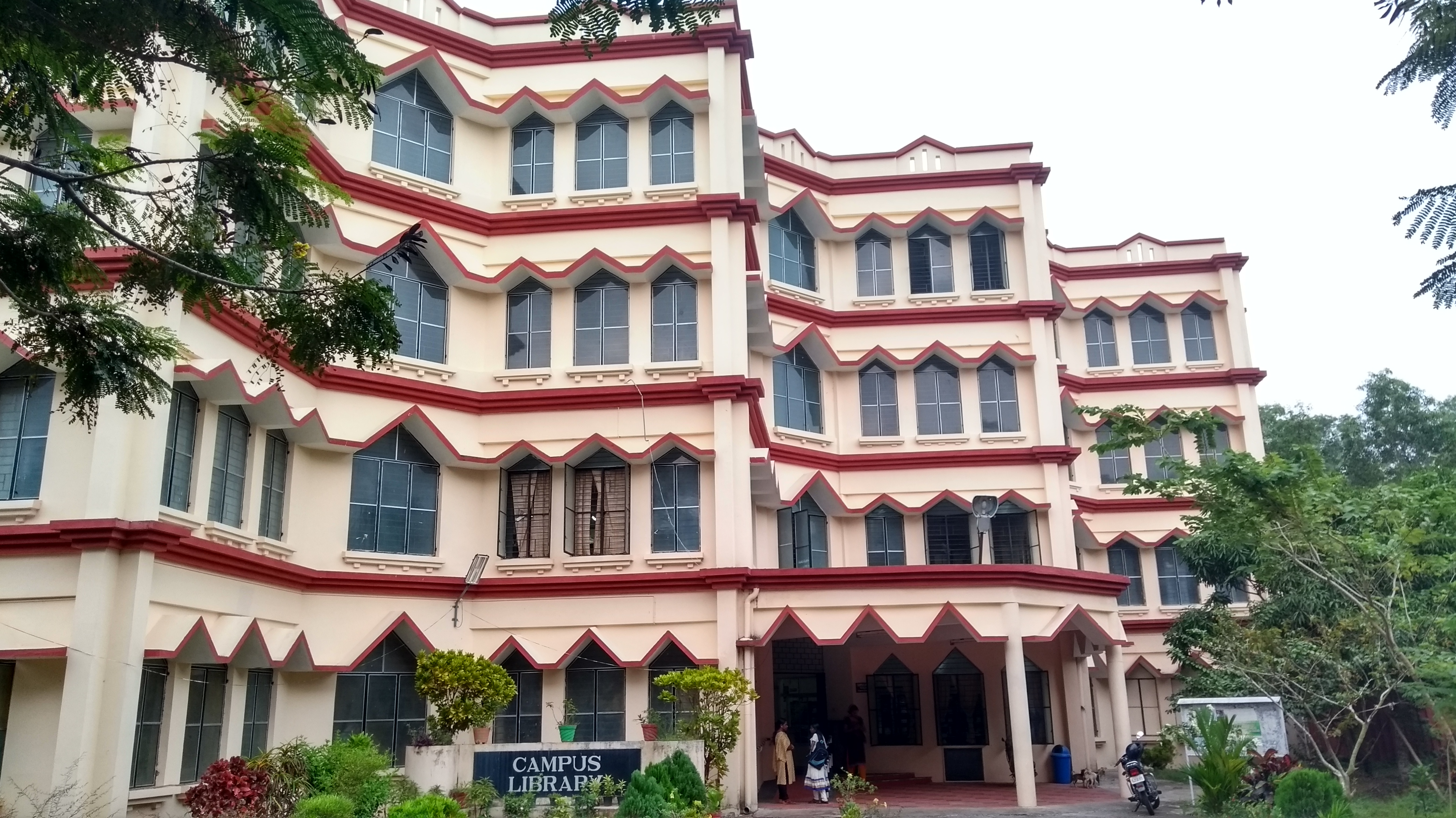 University library